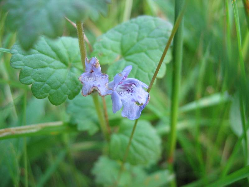 Gundermann Glechoma hederacea